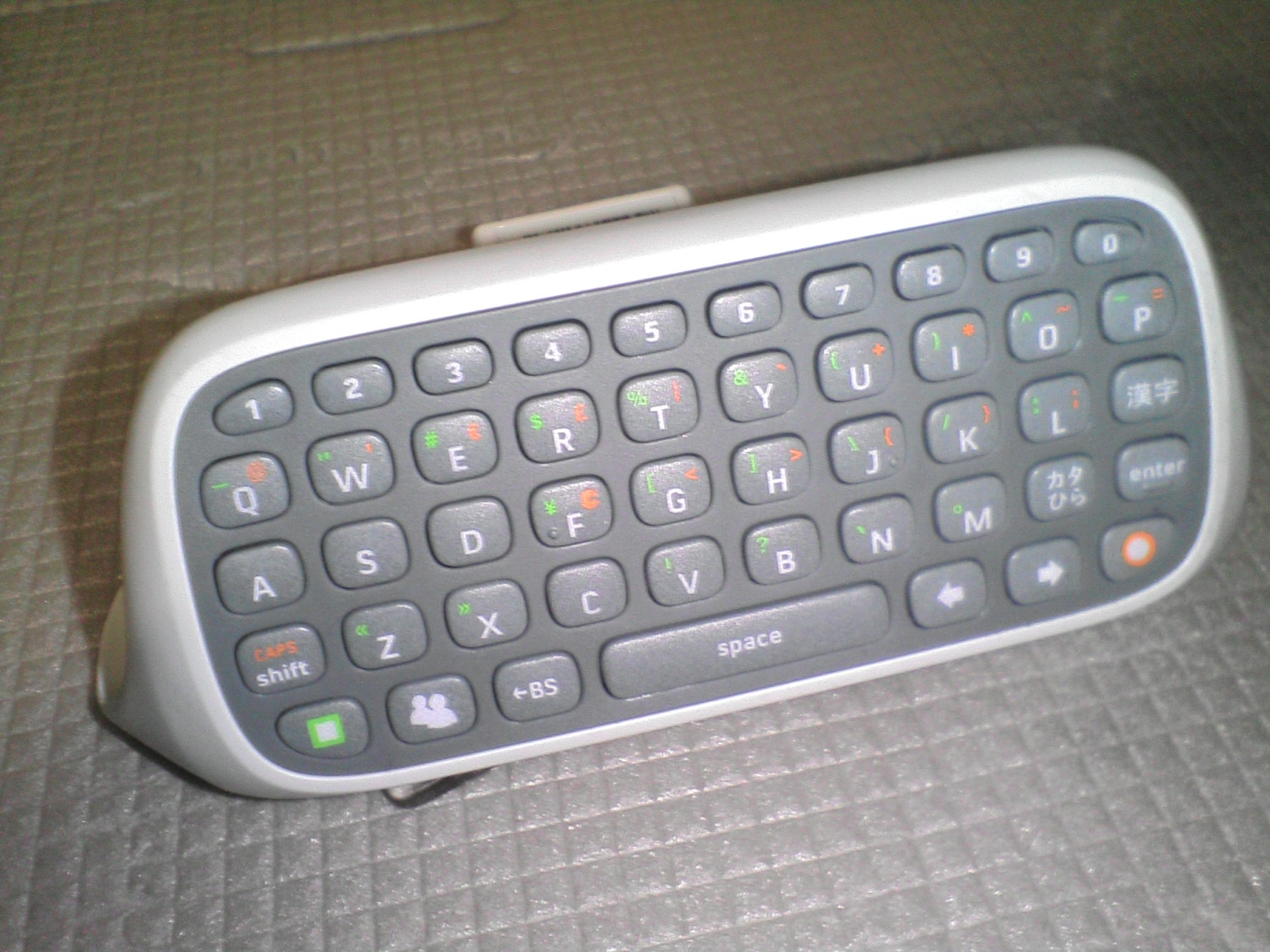 ChatPad, mini keyboard for Xbox 360